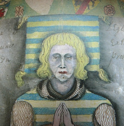 Henry V of Luxembourg